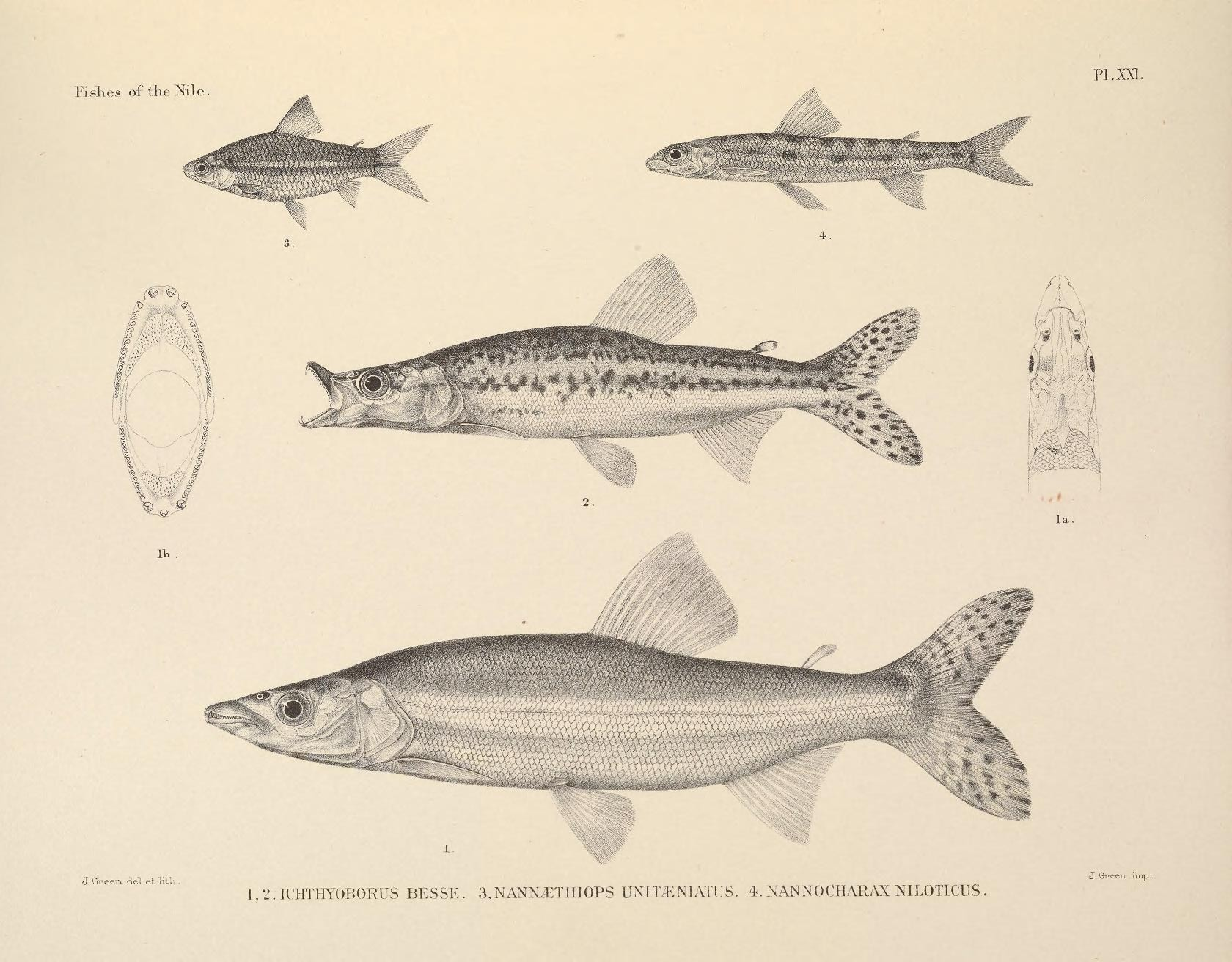 Ichthyoborus besse; Nannaethiops unitaeniatus; Nannocharax niloticus